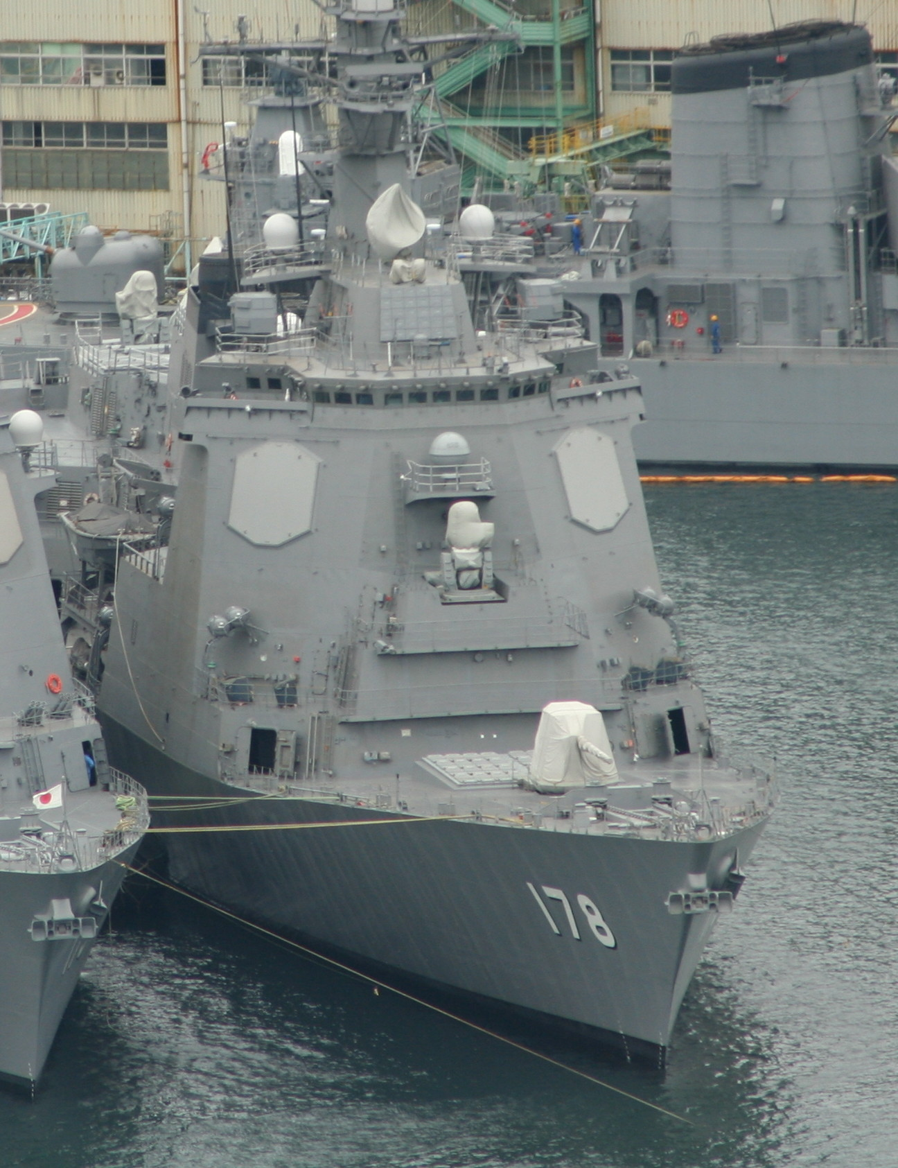 JS Ashigara (DDG-178). My favorite spot. Making a ship.